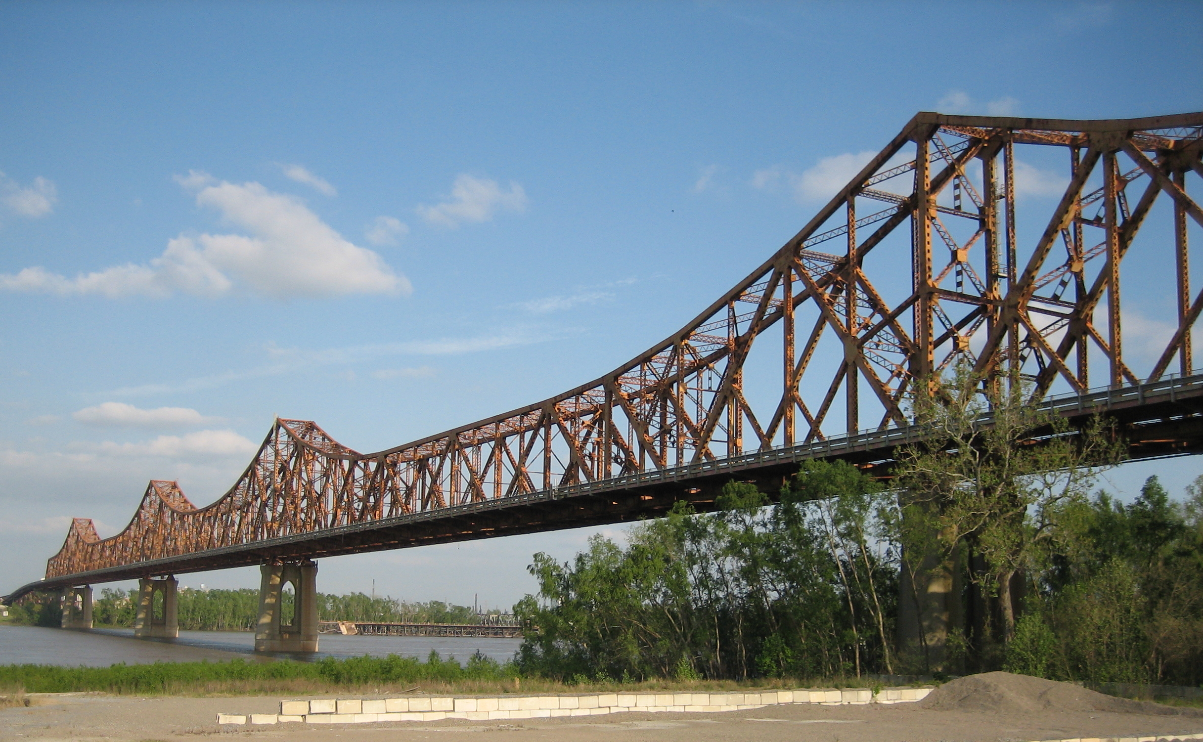 Huey P. Long Bridge (Baton Rouge)